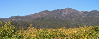 Photographer: Self Subject: Hood Mountain, Sonoma County, Ca, USA from Sonoma Valley